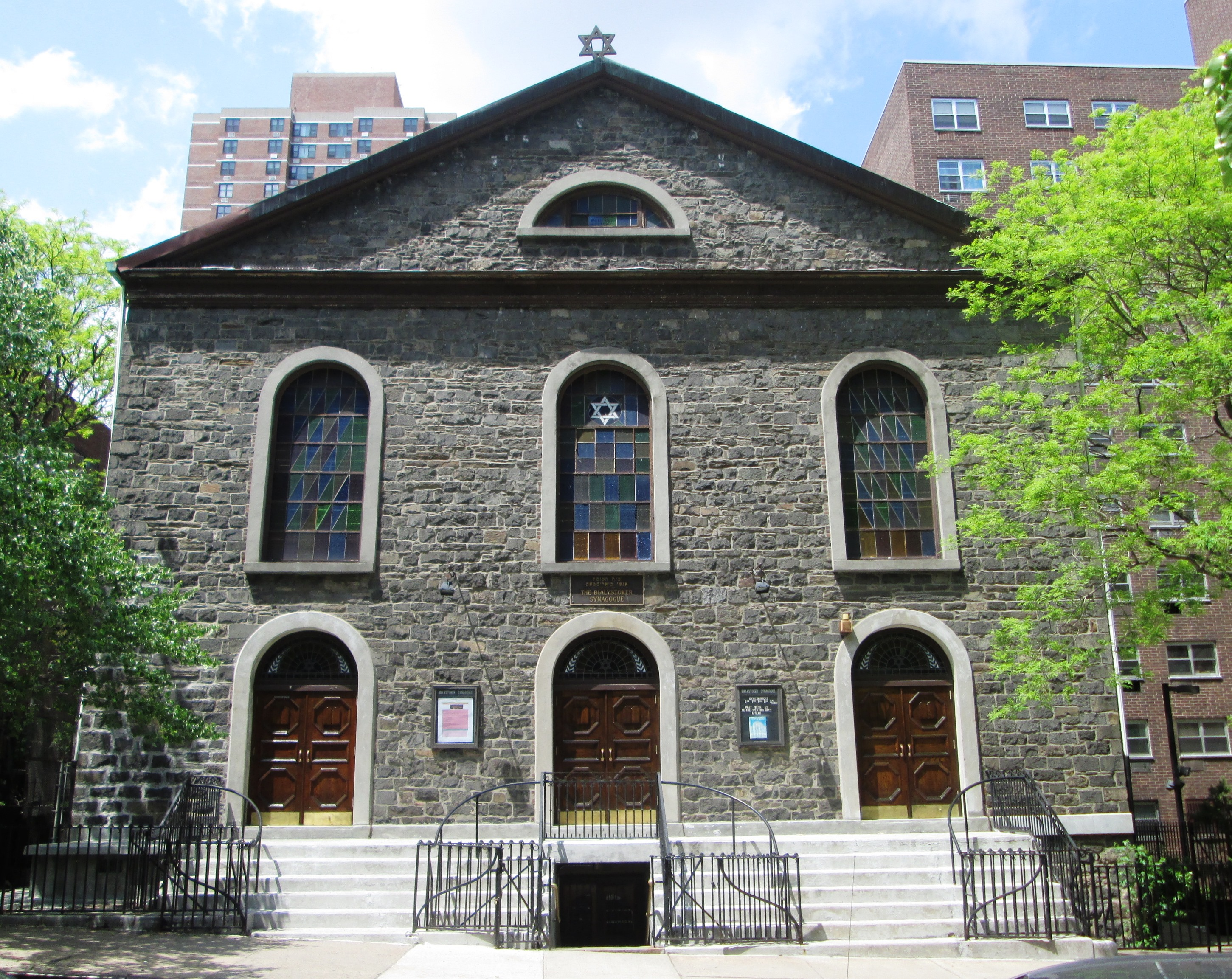 The Bialystoker Synagogue at 7-11 Bailystoker Place between Grand and Broome Streets in the Lower East Side neighborhood of Manhattan, New York City is an Orthodox Jewish synagogue. The building was constructed in 1826 as the Willett Street Methodist Episcopal Church; the synagogue purchased the building in 1905. The building was designated a New York City Landmark in 1966. It is one of only four early-19th century fieldstone religious buildings surviving from the late Federal period in Lower Manhattan, and is the oldest building used as a synagogue in New York City.